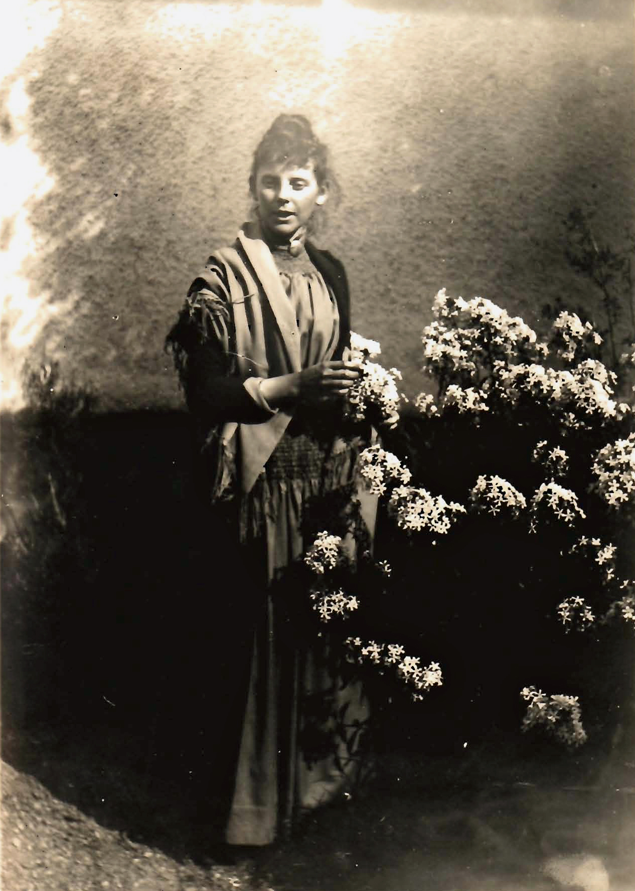 The artist Gerda Roosval-Kallstenius in Västervik during the early 1890s. Photography by Gottfrid Kallstenius (b. 1861 - d. 1943)